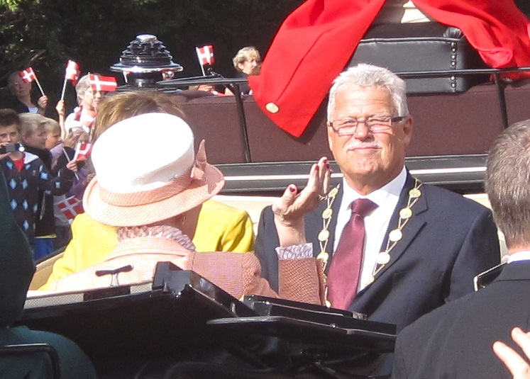 Ole Find Jensen, Mayor of Frederikssund invited Queen Margrethe II II to visit Frederikssund in 2009, Denmark